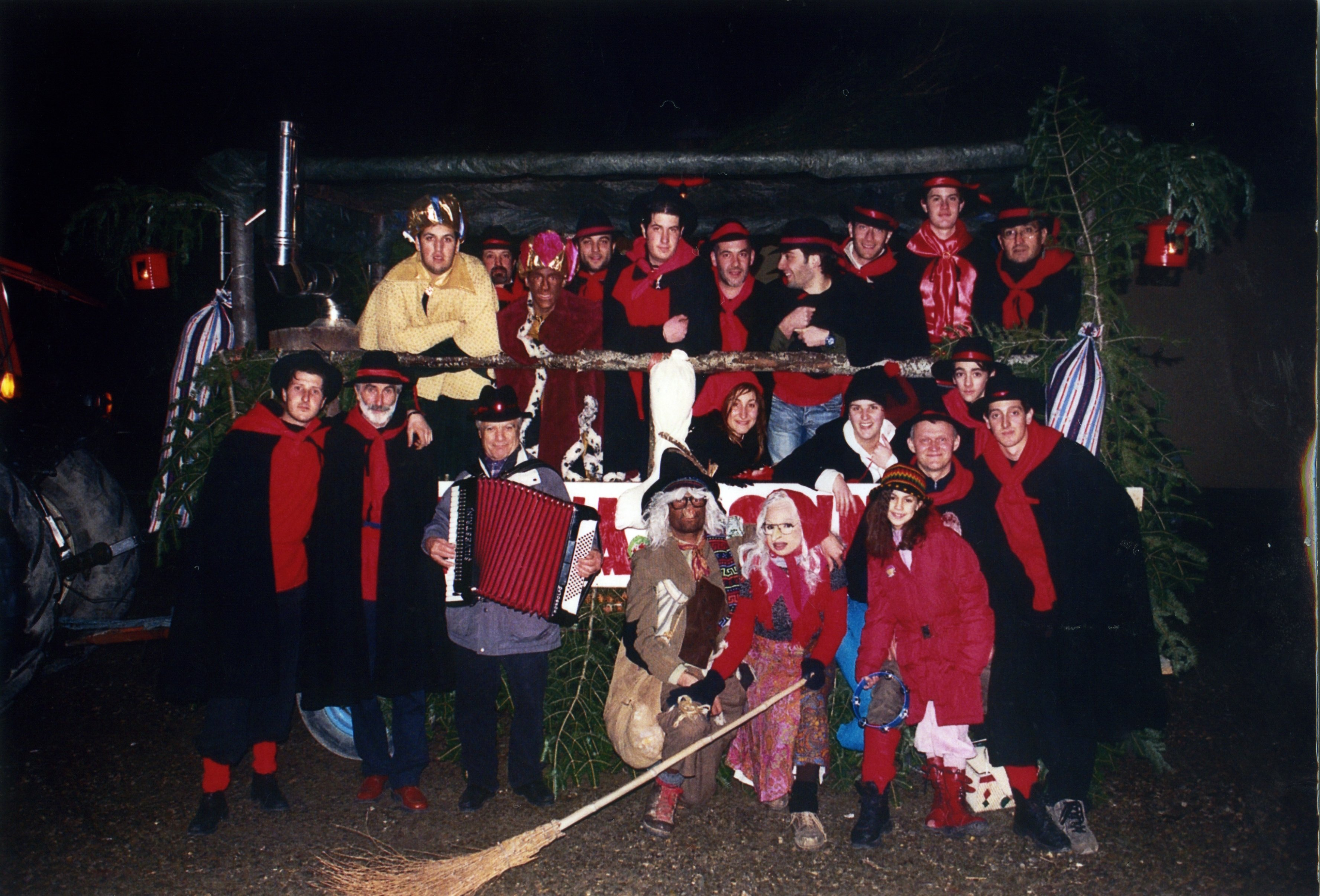 A celebration of Epiphany in Spinello of Santa Sofia in Romagna, Italy